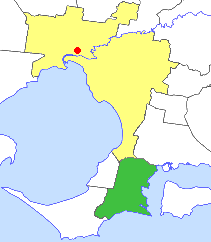 Location of the Shire of Hastings within outer Melbourne.